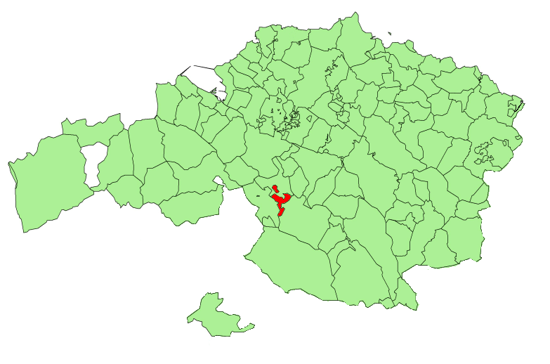 Ugao-Miraballes municipality in the province of Biscay